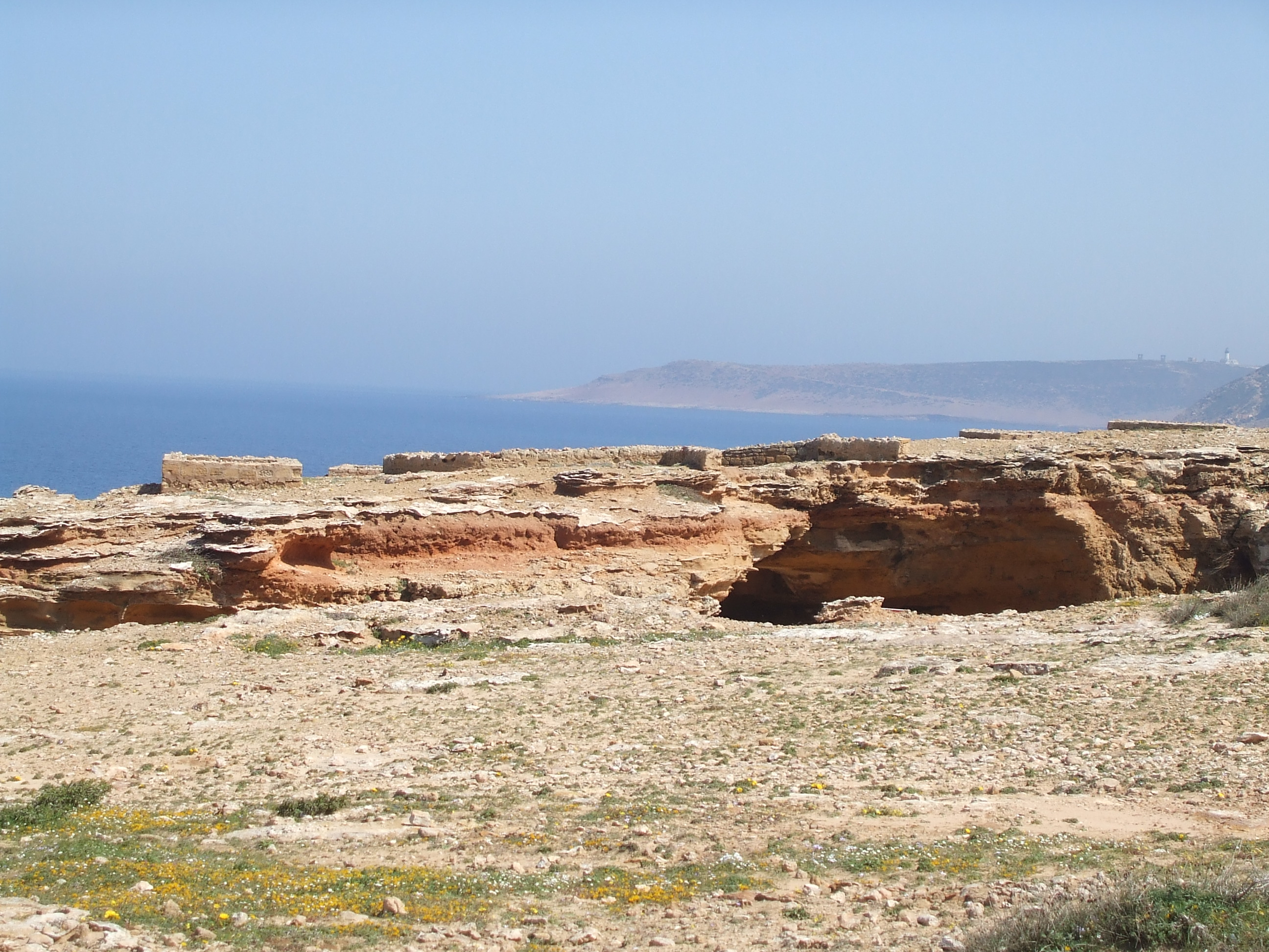 El Haouaria Grottoes